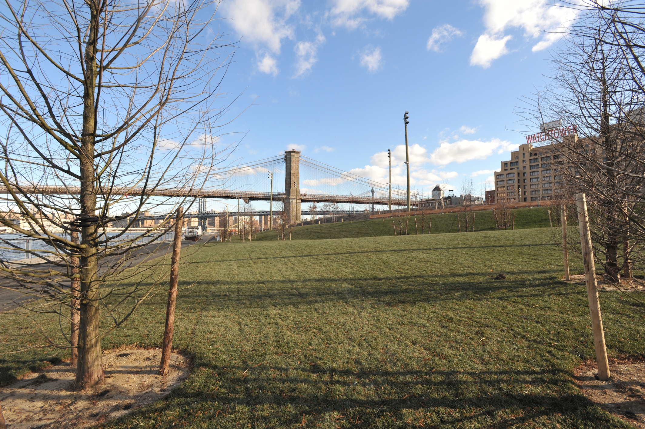 Looking northeast in northern Brooklyn Bridge Park